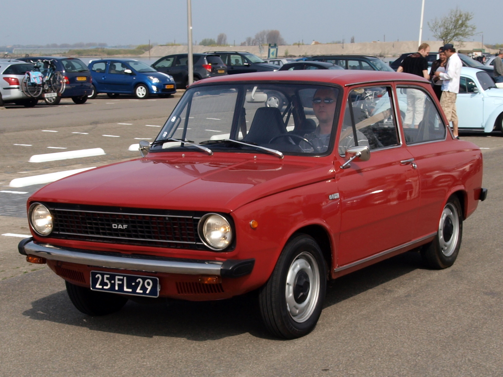 Cars and motorcycles photographed at the Voorschotense Oldtimer Vereniging Show, Valkenburgse meer, The Netherlands. OLYMPUS DIGITAL CAMERA